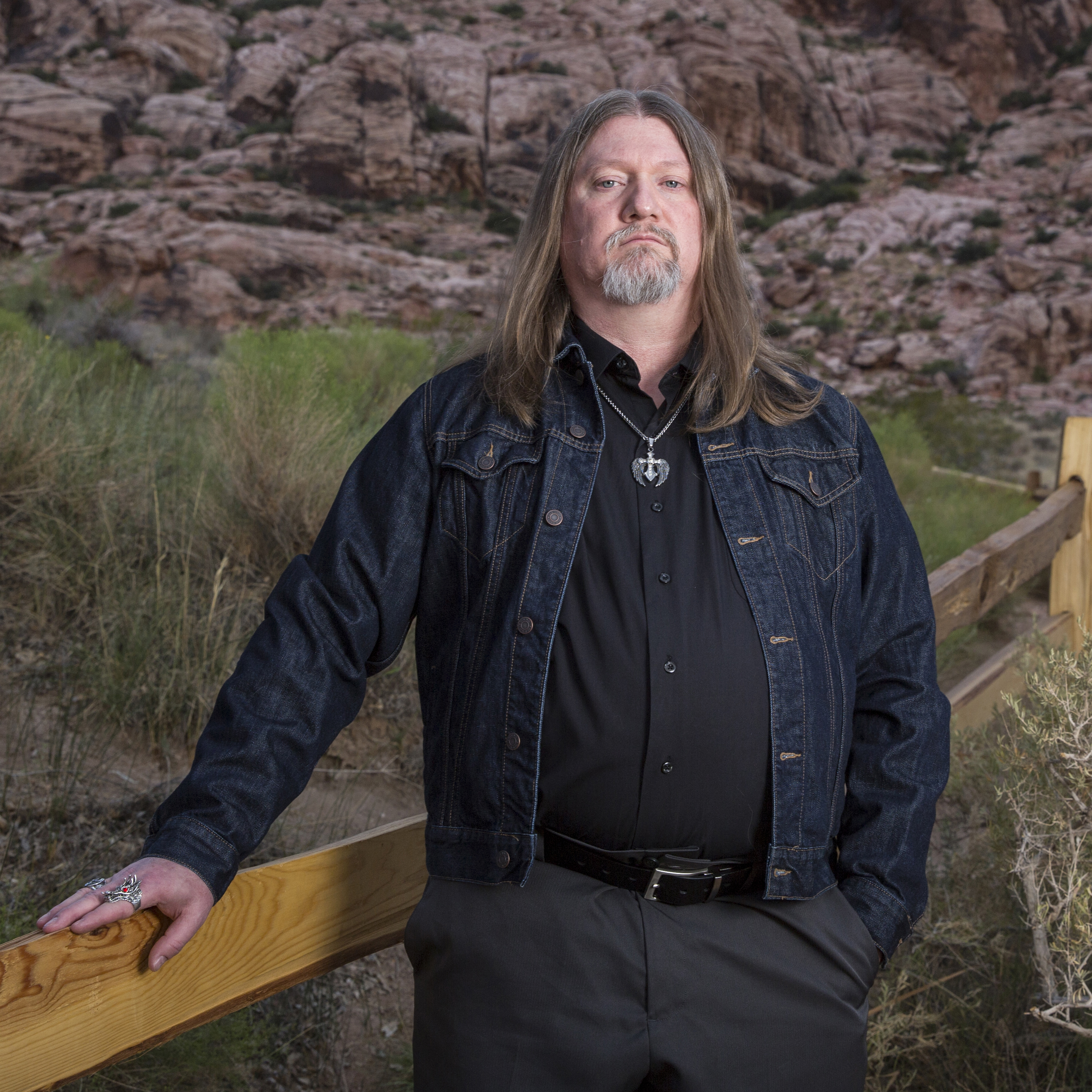 Author Brett Riley at Red Rock Canyon National Conservation Area in Las Vegas